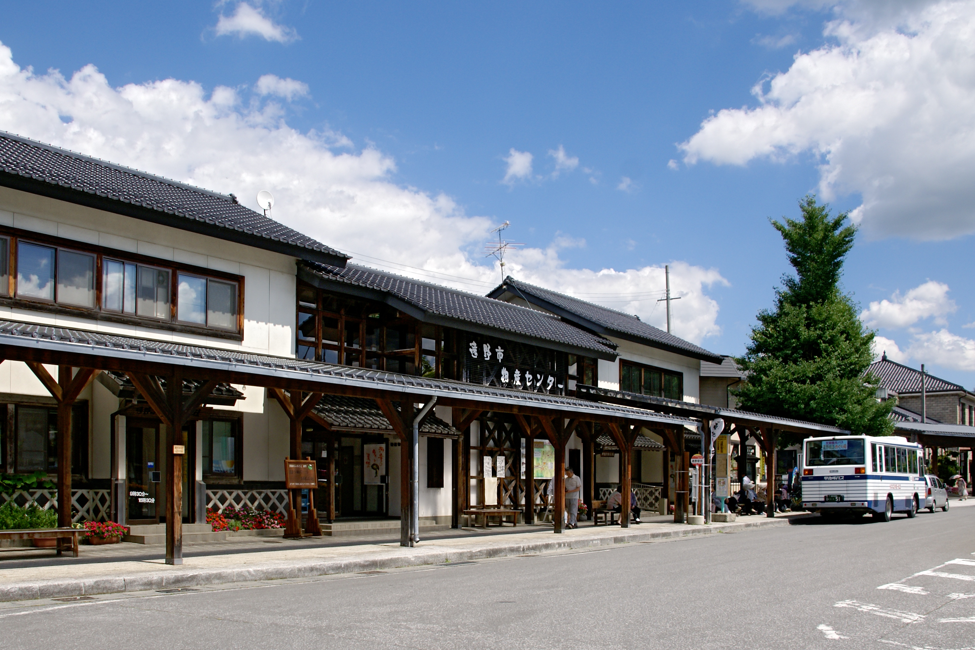 In front of Tōno Station in Tono, Iwate prefecture, Japan